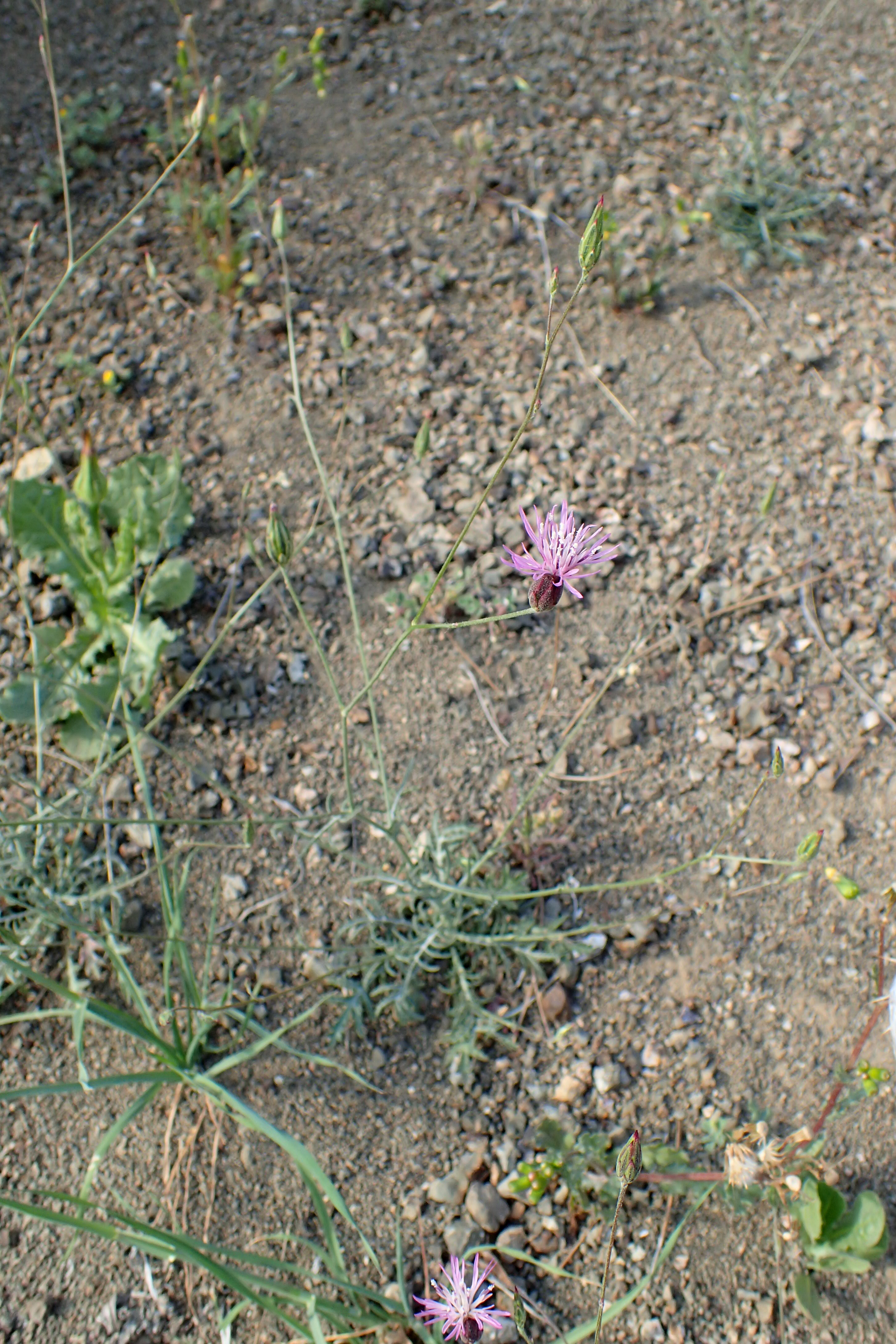 Crupina crupinastrum in Mathiatis, Cyprus